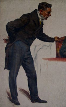 Study of human figures for the painting "The Constituent Courts of 1821", by Veloso Salgado. The two characters are Basílio Alberto de Sousa Pinto (to the left, depicted at full length, turned three-quarters to the left, wearing a brown coat and gray trousers, standing, with parted legs, leaning over the second individual, with his left hand holding the back of the other's chair, and with the back of his right hand on his hip), and João Baptista Felgueiras (depicted at half-length, facing the viewer, looking to the right, wearing a gray coat and sitting on a chair, writing on a table of which only the top was painted). Signed and dated on the lower right corner: "V. Salgado, 1920".